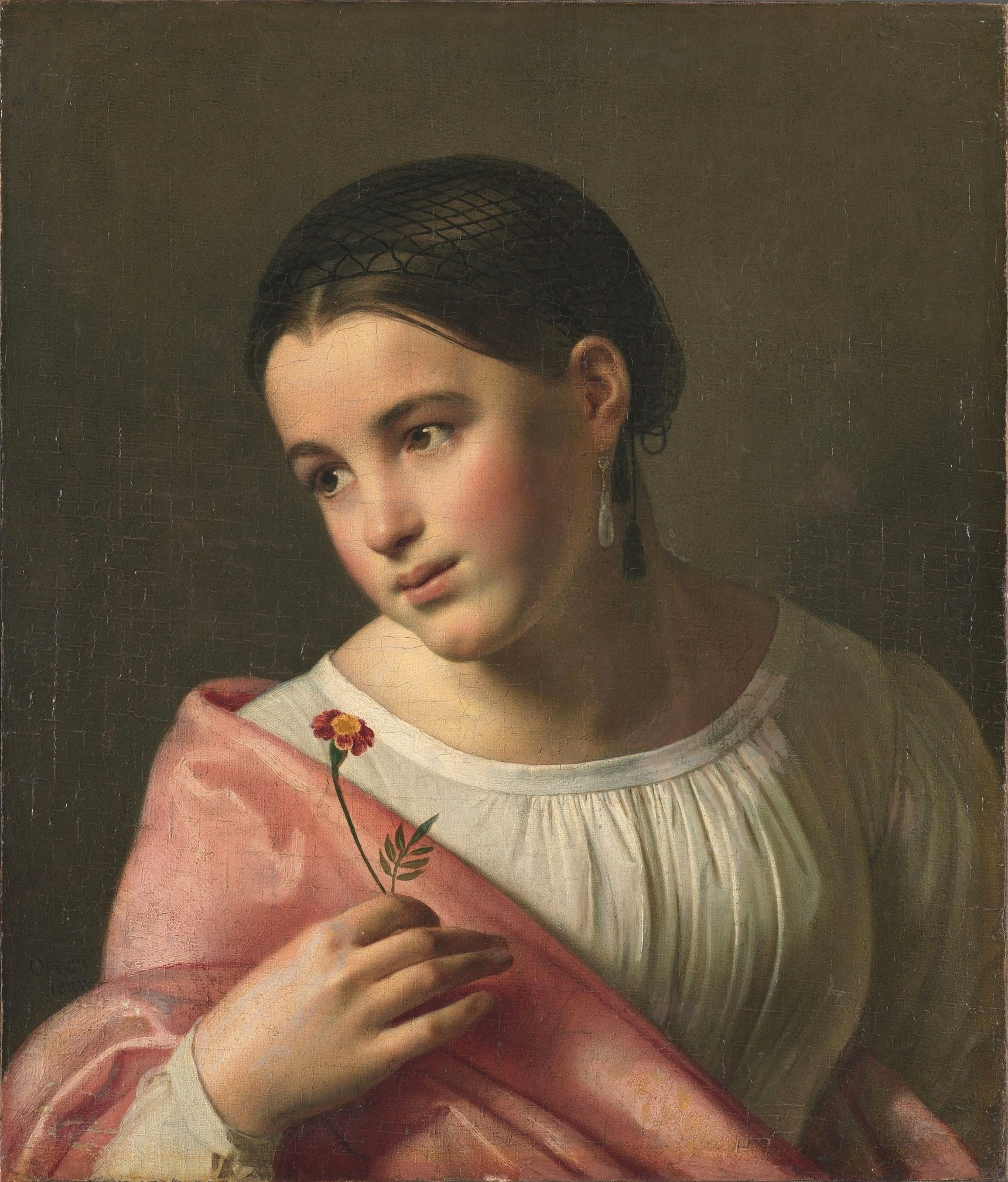 The painting was inspired by Nikolay Karamzin’s novella Poor Liza (1792) that narrates about a young peasant girl, Liza, who committed suicide, when her seducer, the nobleman Erast, had cooled of her and then abandoned her for the sake of an old but rich widow.